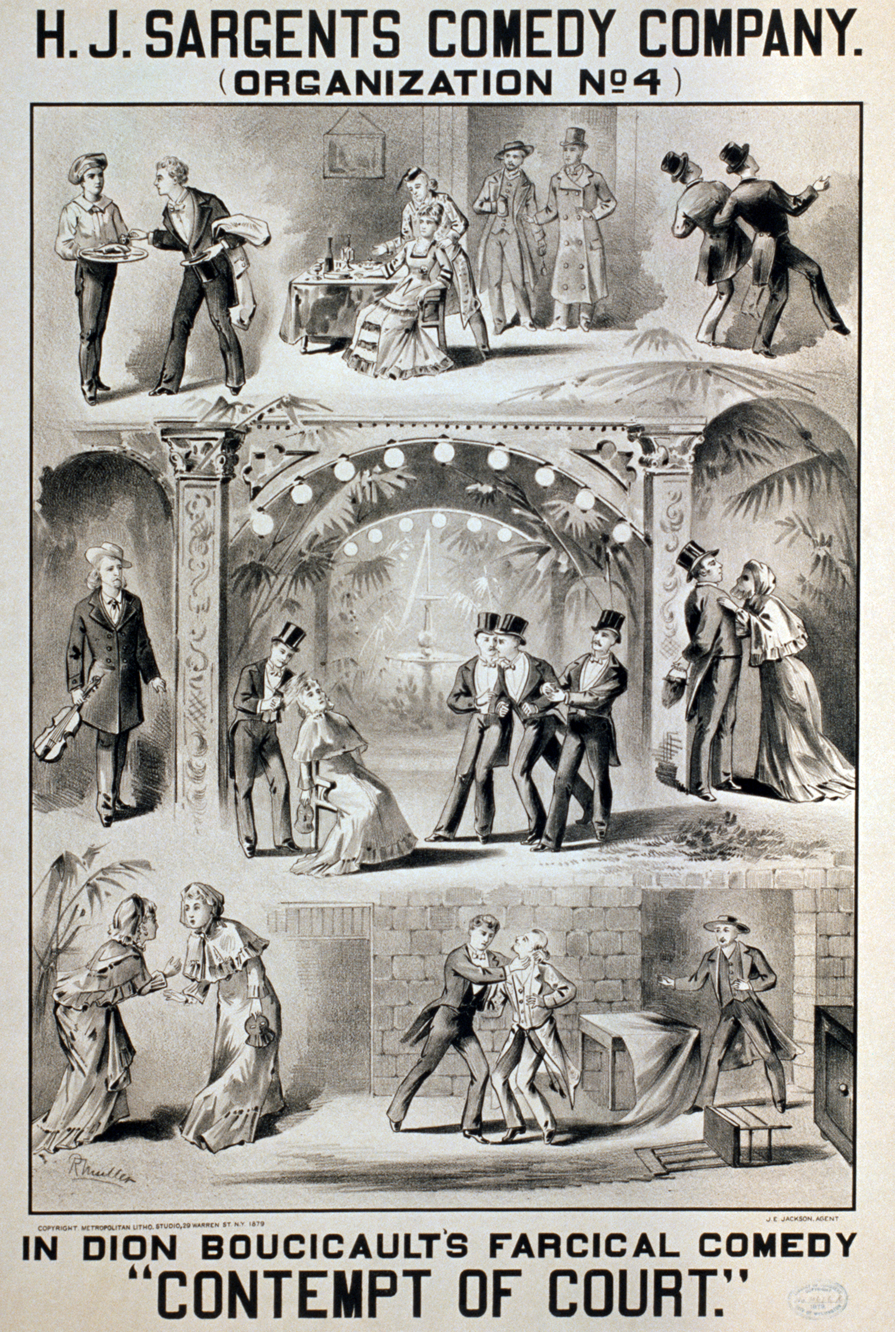 Poster for the play Contempt of Court by Dion Boucicault